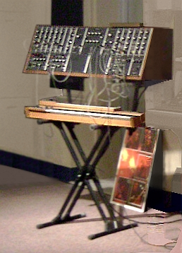 1CA Chris Swanson Modular System (1965) (R.A.Moog Inc. Synthesizer 1C) This is a shot of part of Canto's collection of MOOG synths. Visited the Cantos Foundation museum of electronic instruments and keyboards in February 2009 and took a lot of photos and videos. Confession: when I first saw this, I squee-d in absolute and uncontainable glee. Trackback: MatrixSynth - thanks for the link.